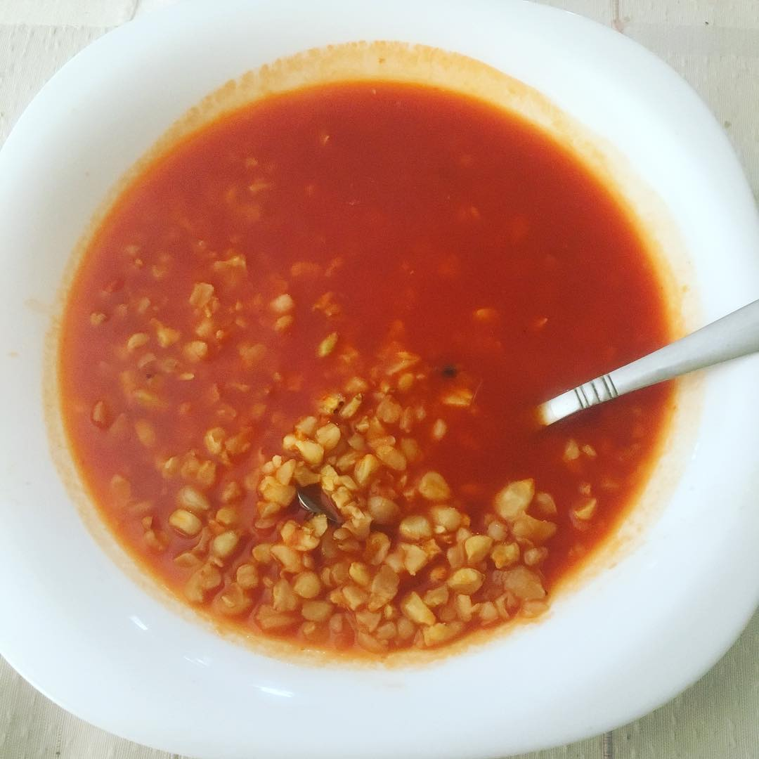 Eating Mexican chuales!